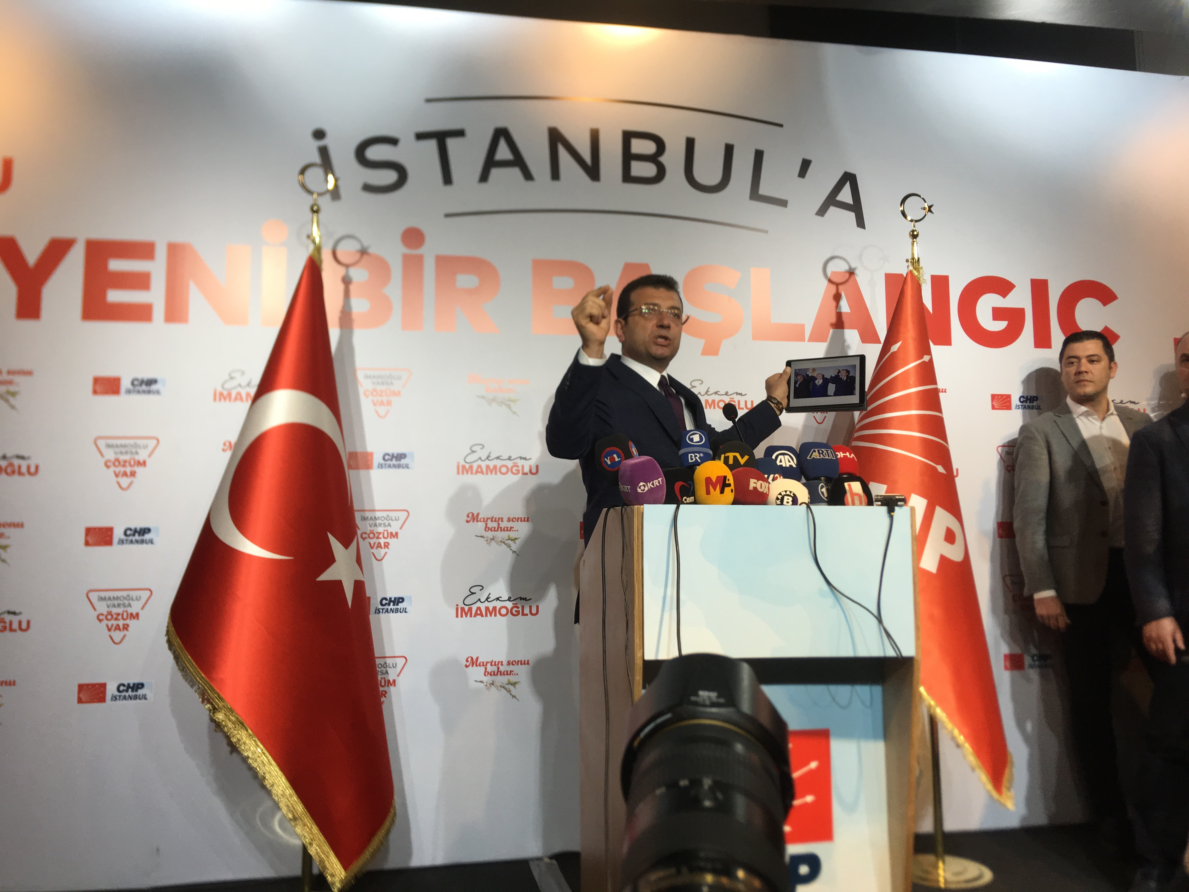 Ekrem İmamoğlu 20190403